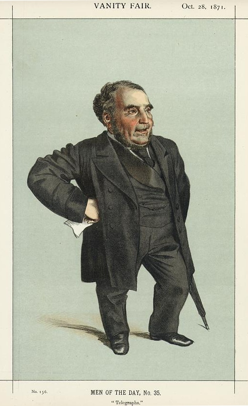 Caricature of John Pender (1816-1896). Caption read "Telegraphs".